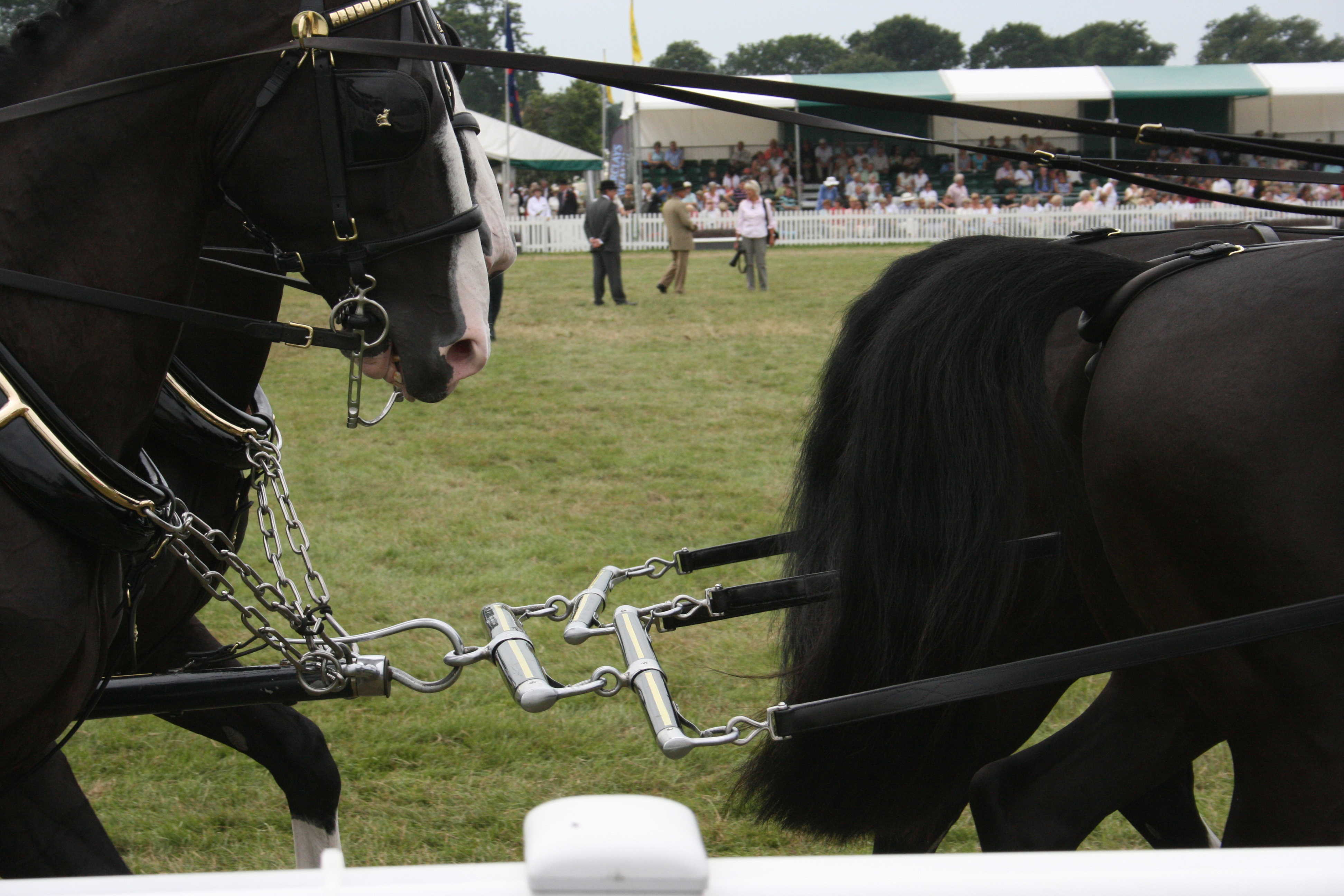 Set of whippletrees or leader-bars for the two leaders in a team of four horses drawing a carriage.